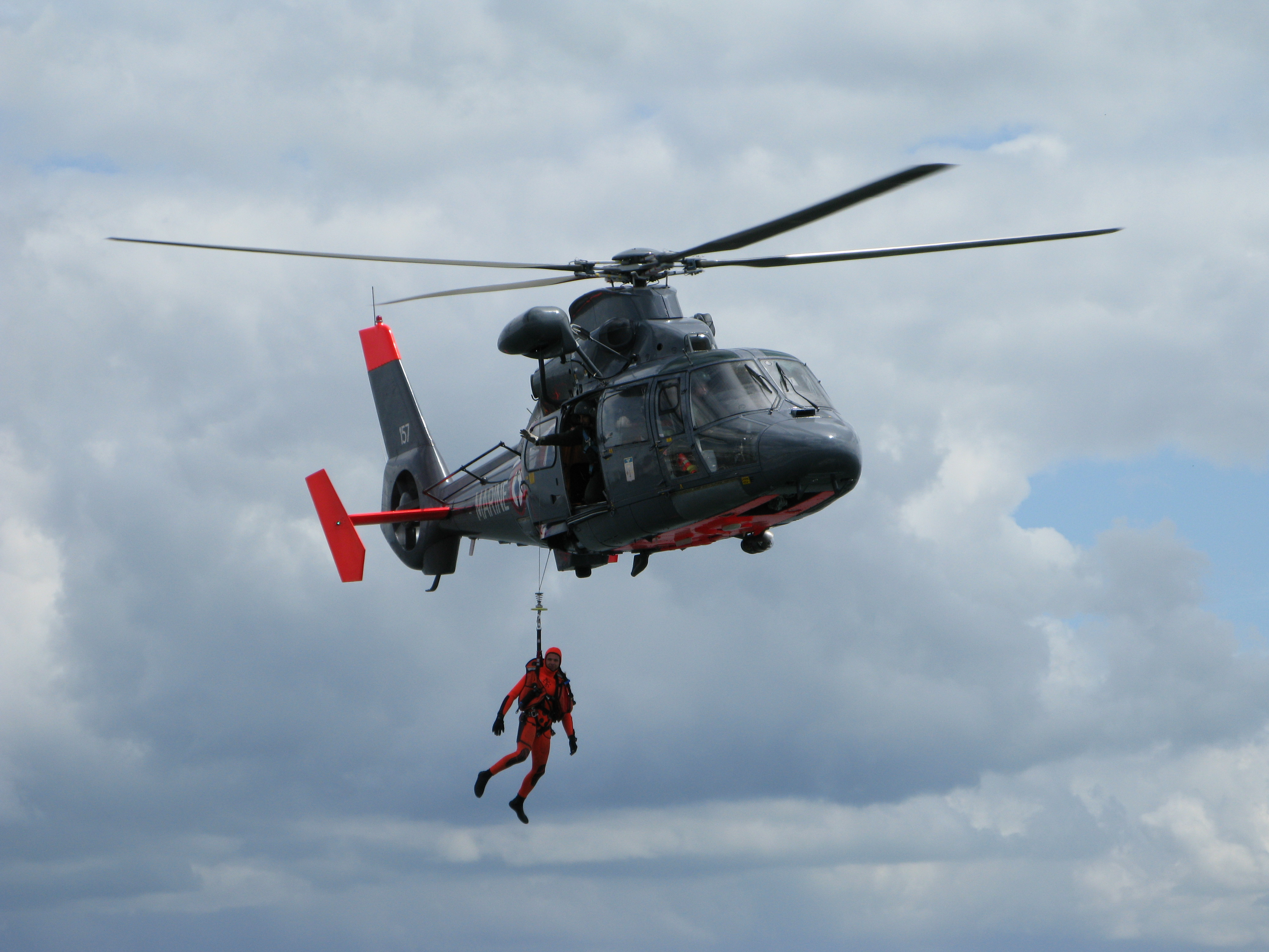 Demonstration of an offshore rescue - Helicopter of French Marine - Dauphin SP SA-365N, Flottille 35F - Brest, France